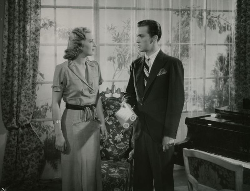 Scene from the Hungarian movie titled Varjú a toronyórán (released in 1938)